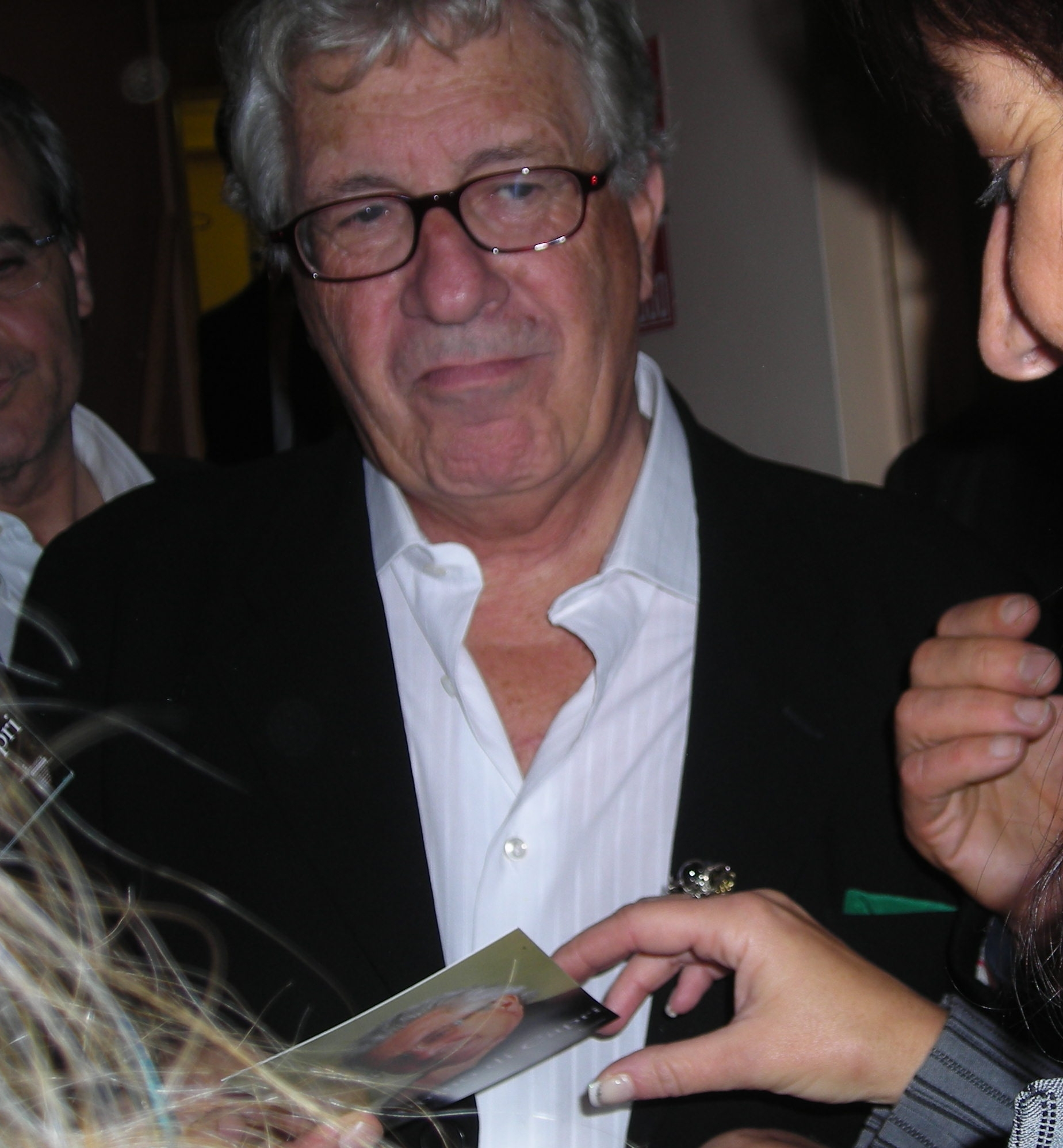 Peppino Di Capri signing some autographs to his fans after the concert at the Teatro Alfieri in Turin, October 20th, 2008